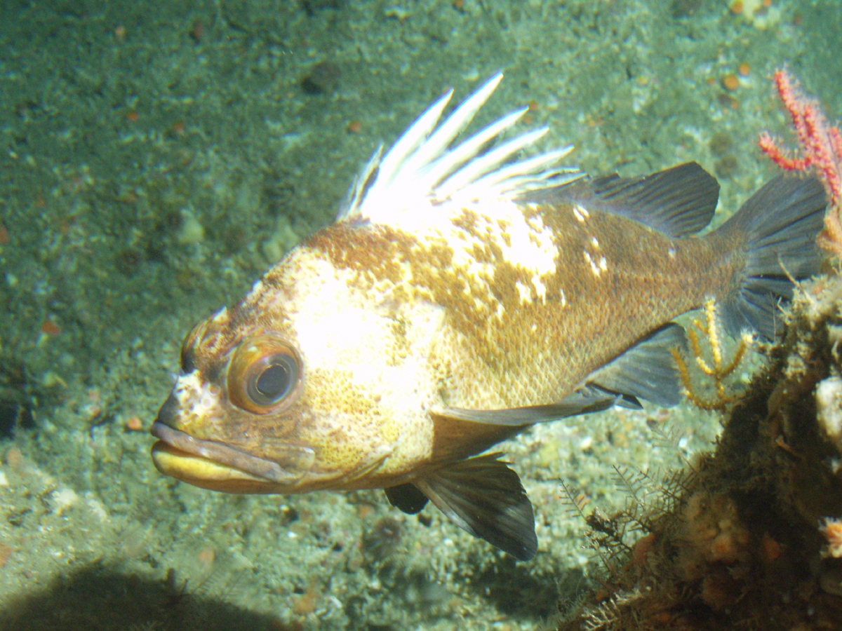 Quillback rockfish (Sebastes maliger) observed off Point Sur during a sanctuary seafloor monitoring survey using the Delta submersible.